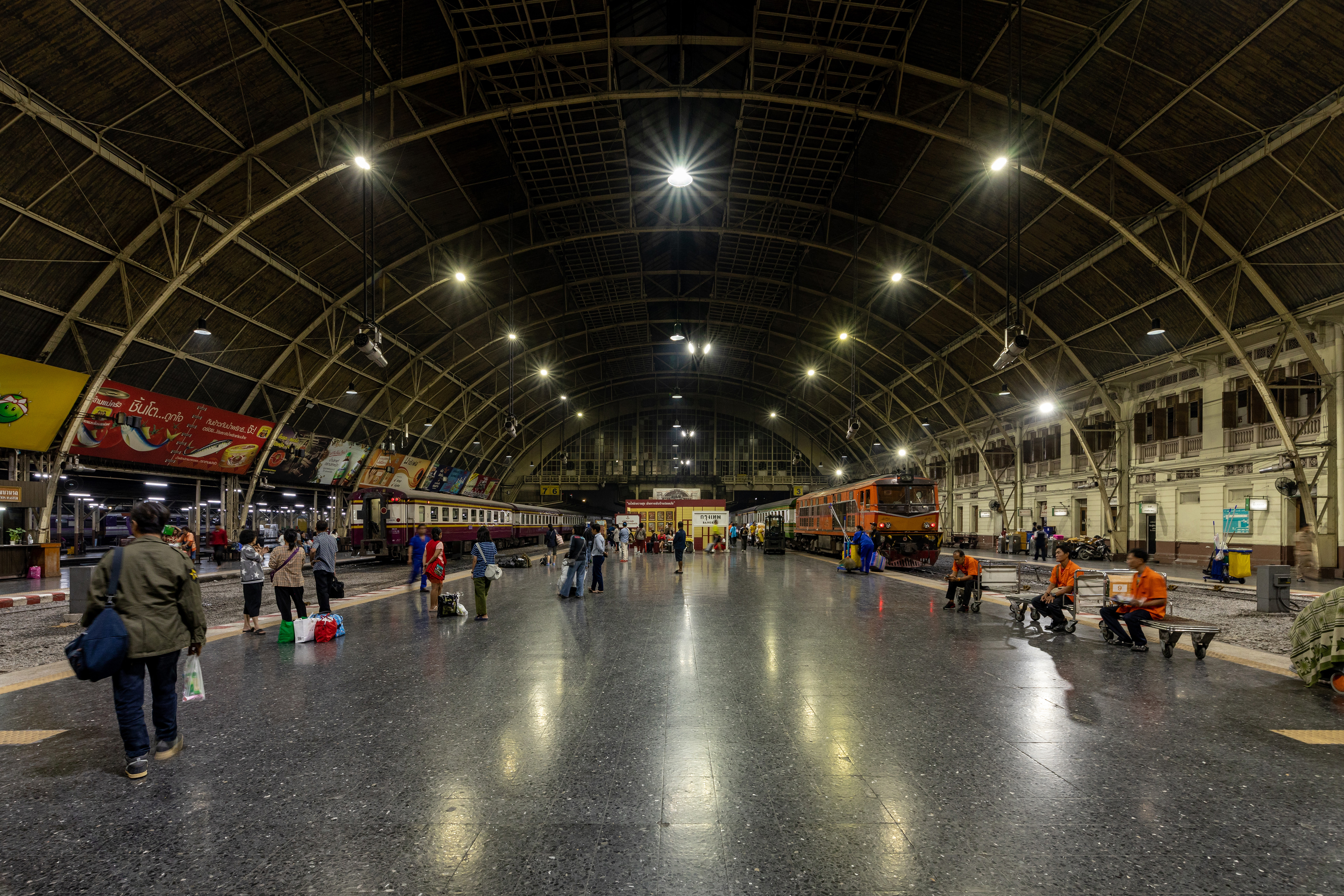 Hua Lamphong Railway Station, Bangkok, Thailand.